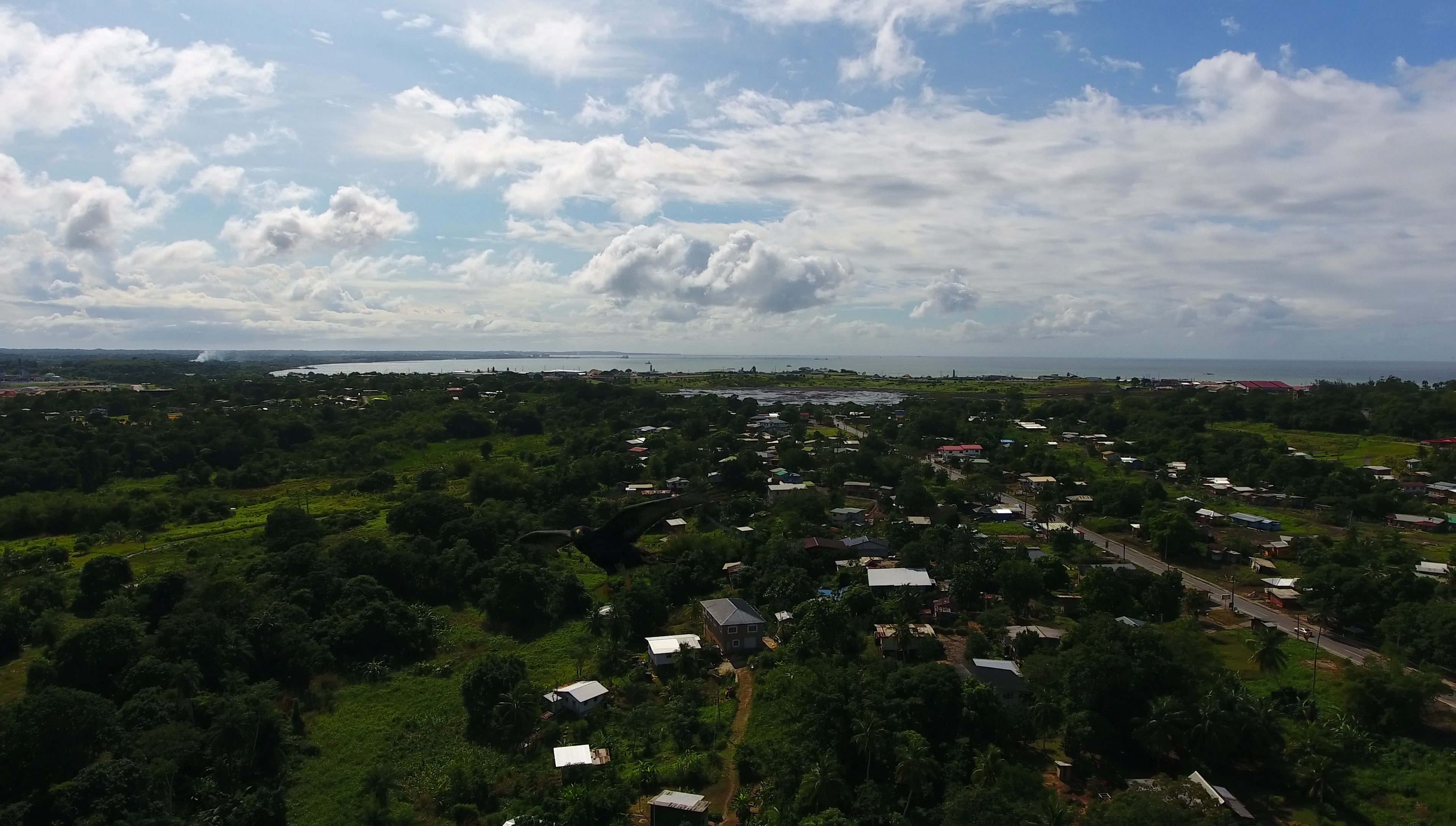 La Brea, Siparia, Trinidad and Tobago. Background: Pitch lake. Very background: Gulf of Paria. Road: Southern Main Road. Front: Blackbirdus curious. Photo taken as part of the Southern Trinidad Aerial Photo Project, a small project sponsored by WMDE. Drone used: DJI Phantom 4. Snapshot taken from video footage via VLC.